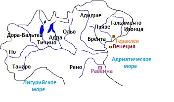 Venetian Roman and Byzantine empire river transport zone